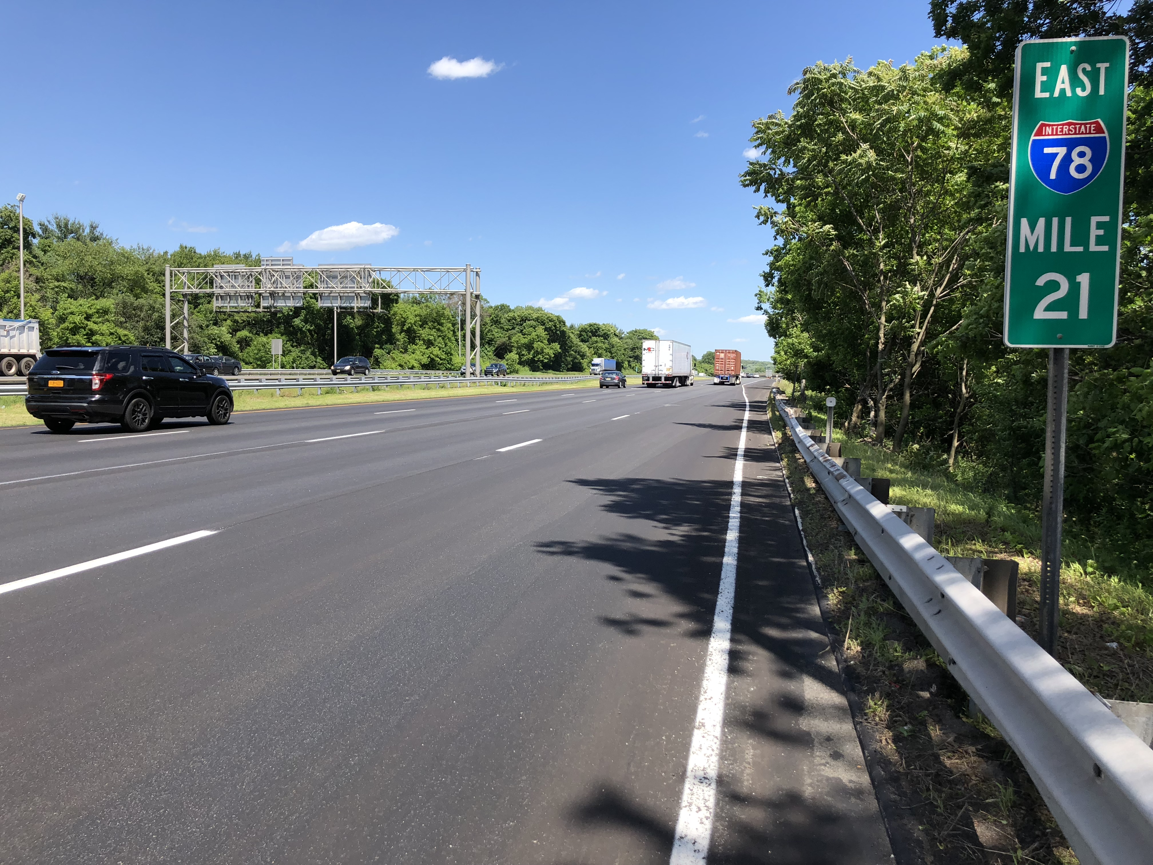 View east along Interstate 78 (Phillipsburg-Newark Expressway) between Exit 18 and Exit 24 in Lebanon, Hunterdon County, New Jersey